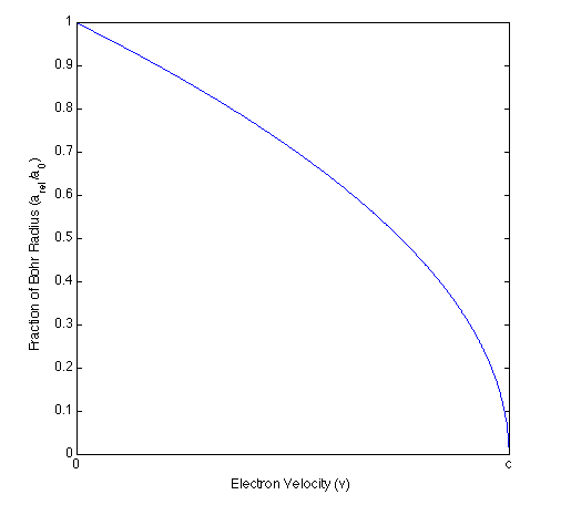 Fraction of relativistic and uhrelativistic Bohr radius as a function of the electron velocity